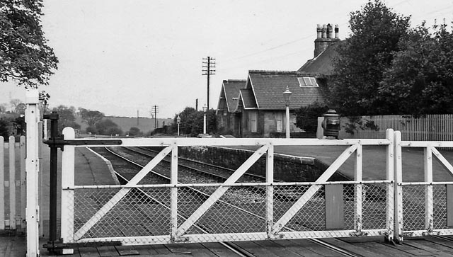 Brancepeth Station (remains). View NE, towards Durham; ex-NER Durham - Bishop Auckland line. Station closed 4/5/64, to goods (with whole line) 10/8/64.